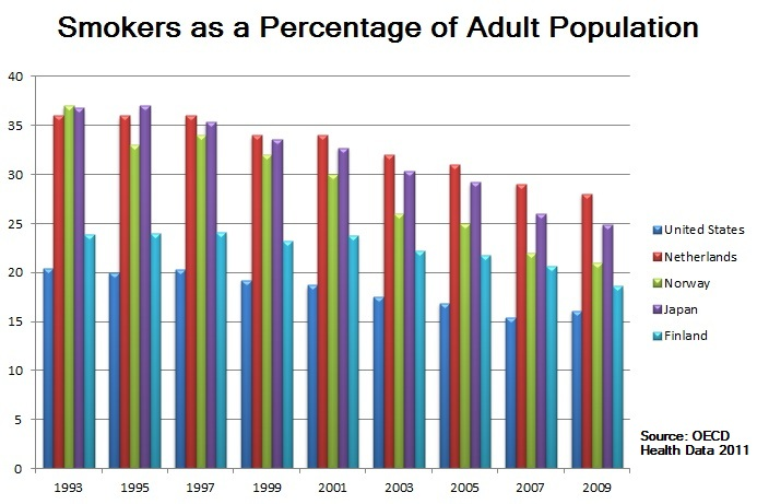 This image depicts cigarette smokers as a percentage of the adult (defined as 15 or older) population for the United States, the Netherlands, Norway, Japan, and Finland. The odd years from 1993 to 2009 are included. An 'OECD Health Data 2011' report is used for the information, which is available here.